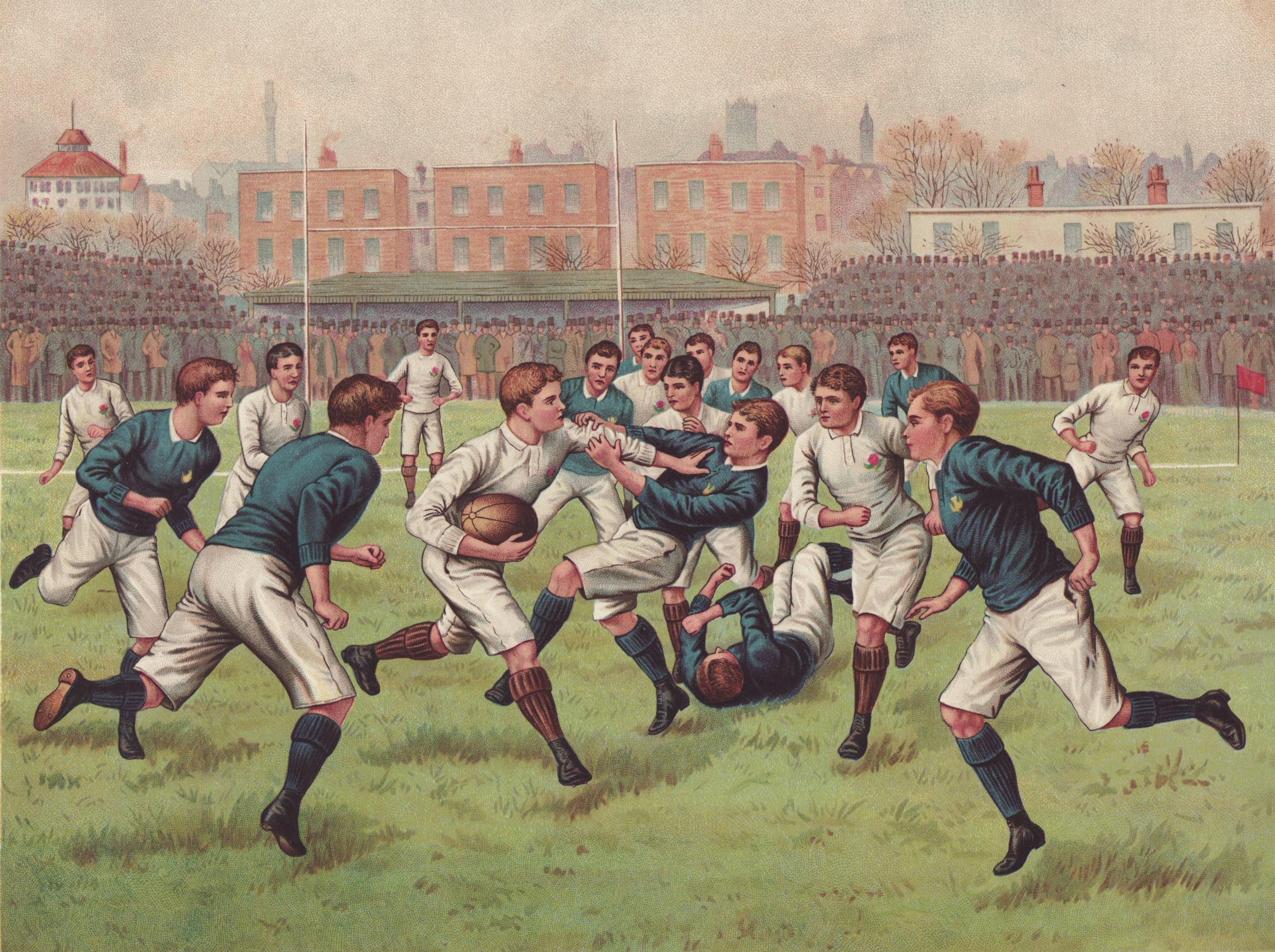 A Football Match, between England and Scotland. Illustration.